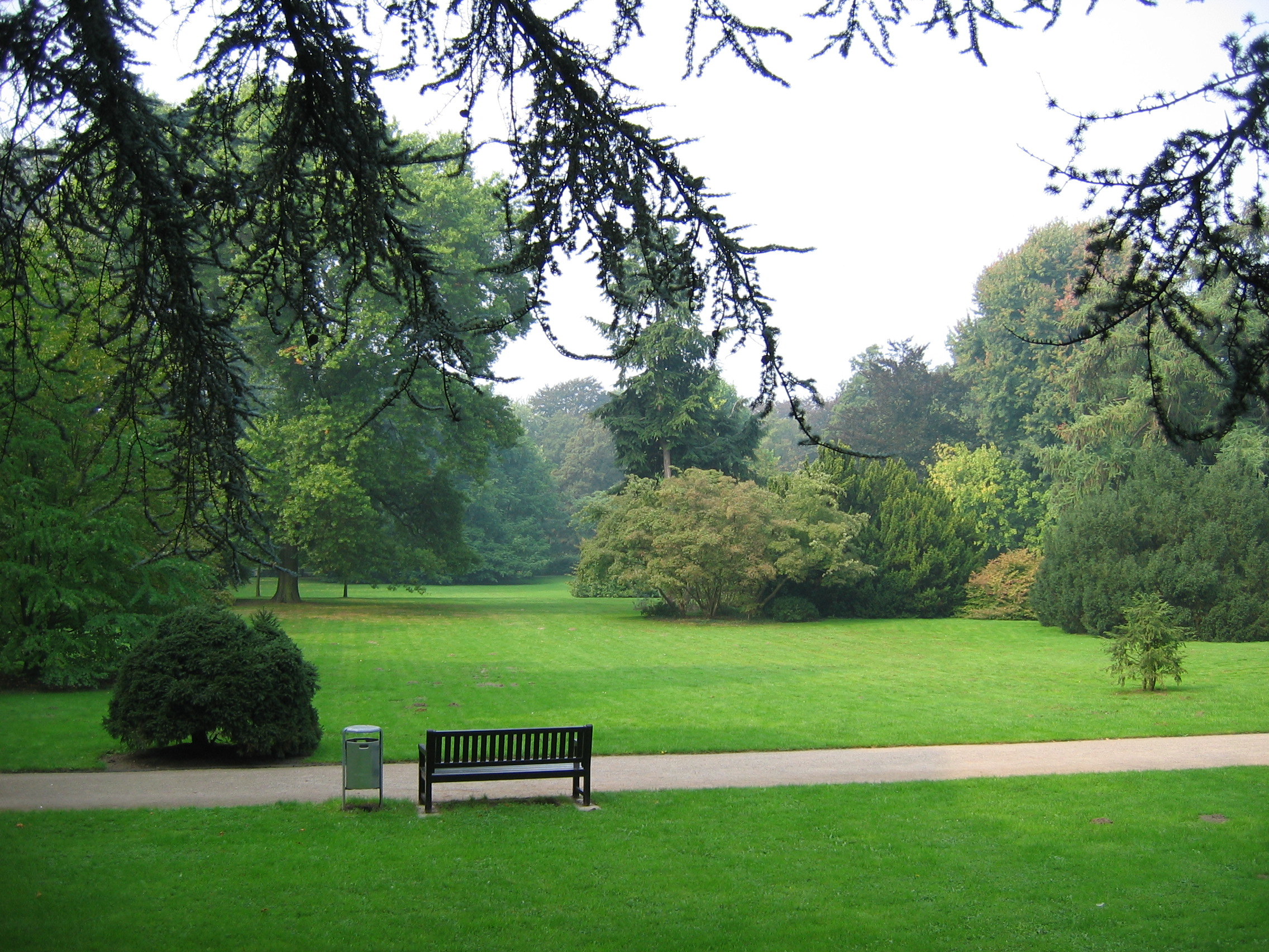 View of the English garden in the Poensgenpark in Ratingen